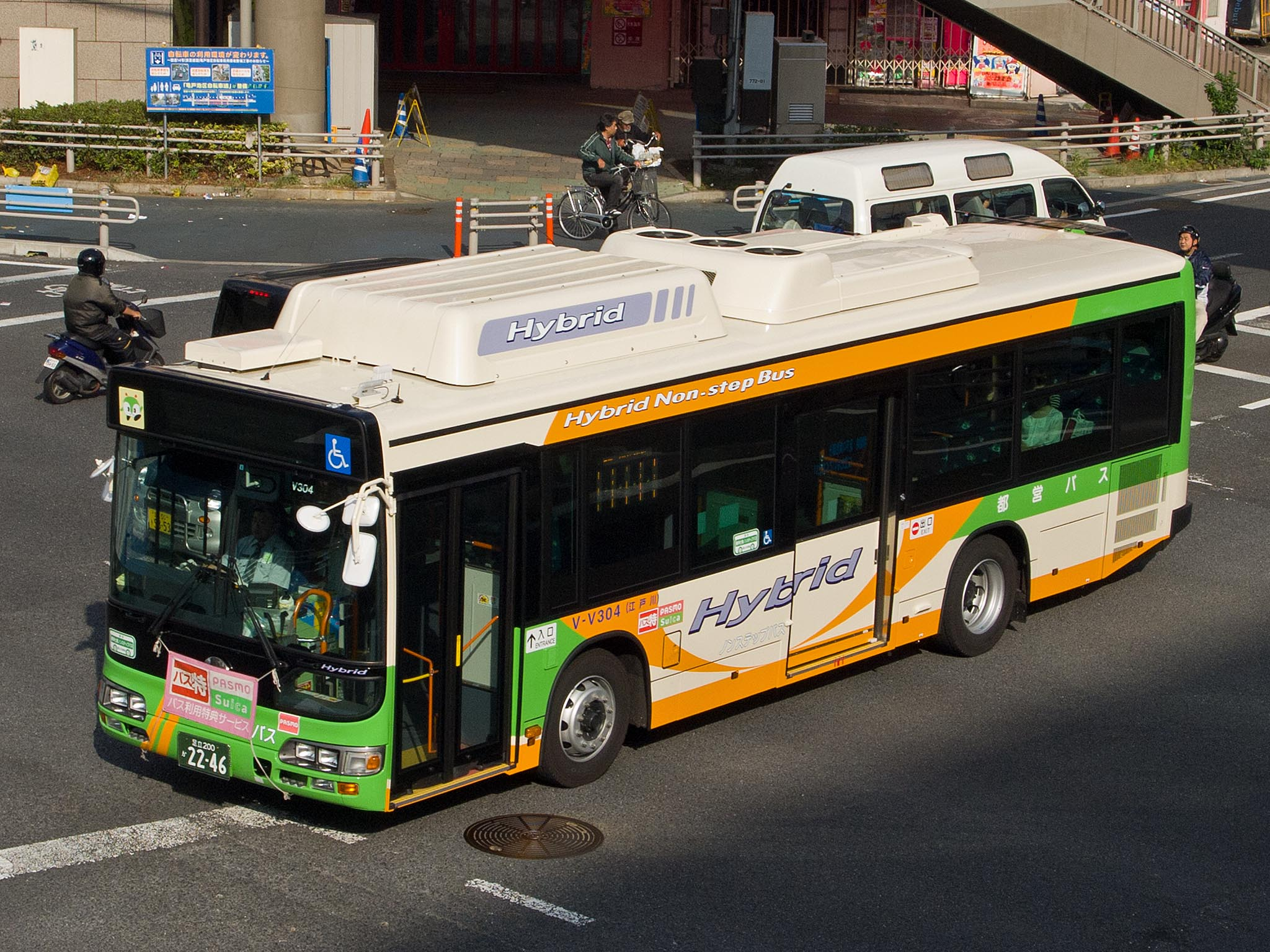 Fleet of Toei Bus, Hino Blue Ribbon City Hybrid 2010 version. License plate: TKA200 KA2246 Place: Neighbour of Kameido Station, Koto Ward, Tokyo Japan